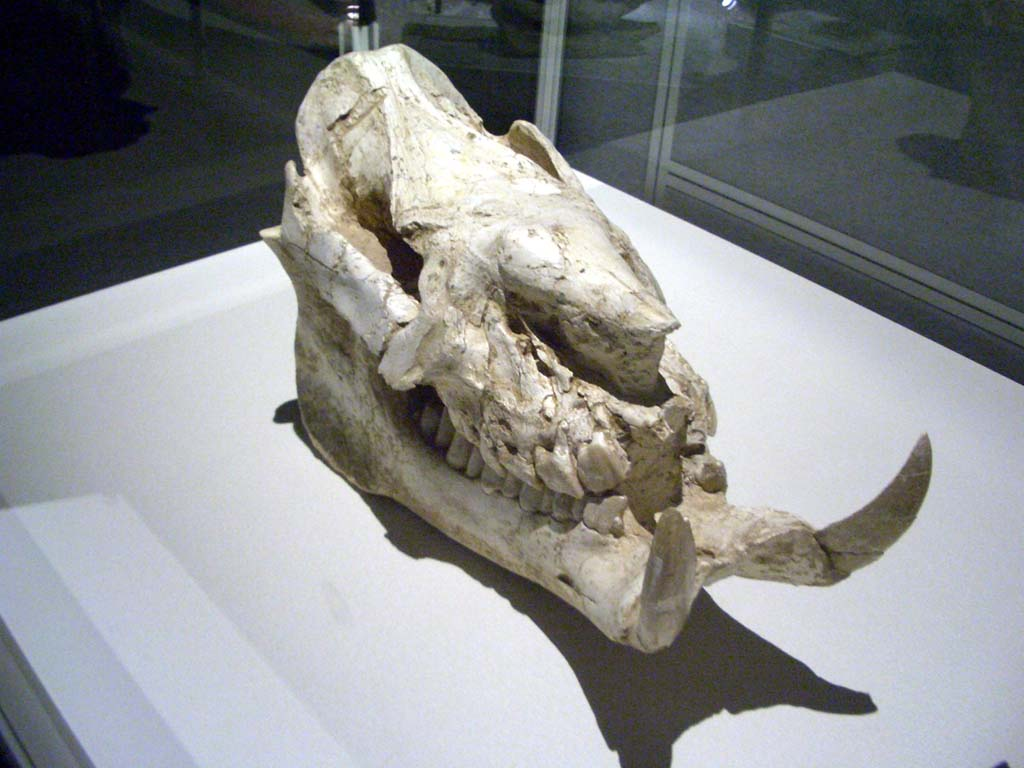 Chilotherium skull displayed in Hong Kong Science Museum